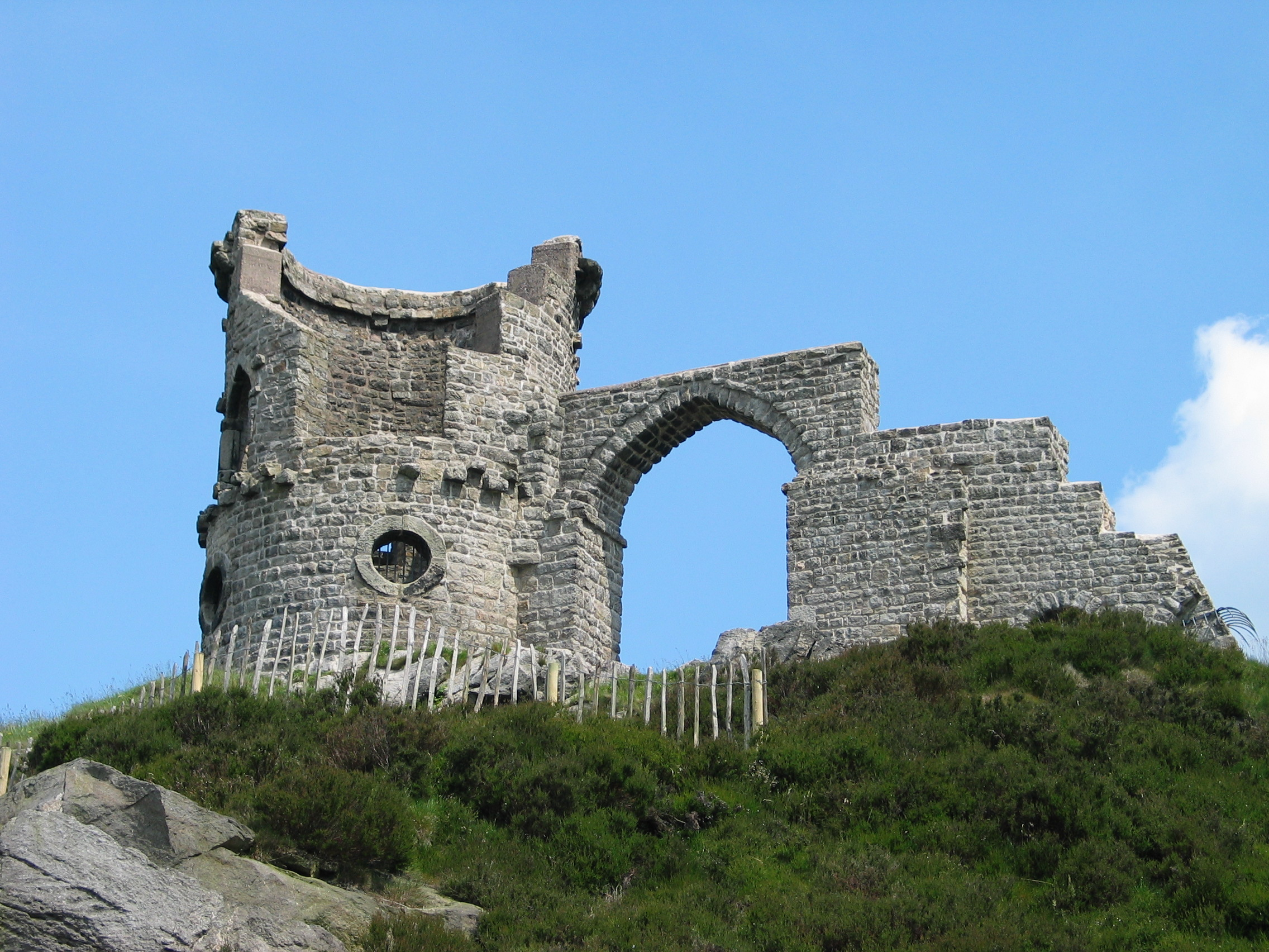 Photograph of Mow Cop Castle in Staffordshire